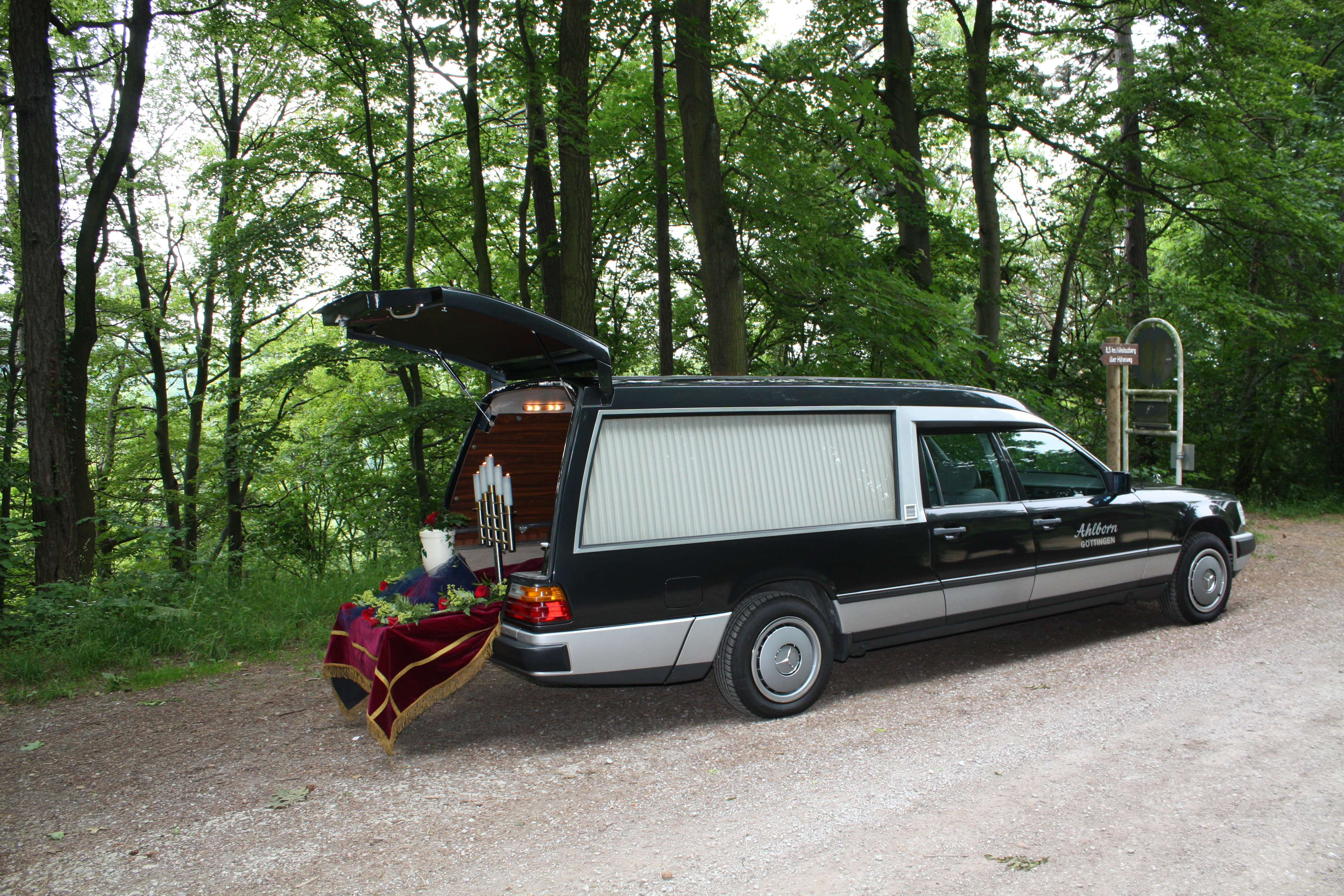 The laying-out of a urn in a hearse for a funeral in the forest. (Plesse Castle, Göttingen).